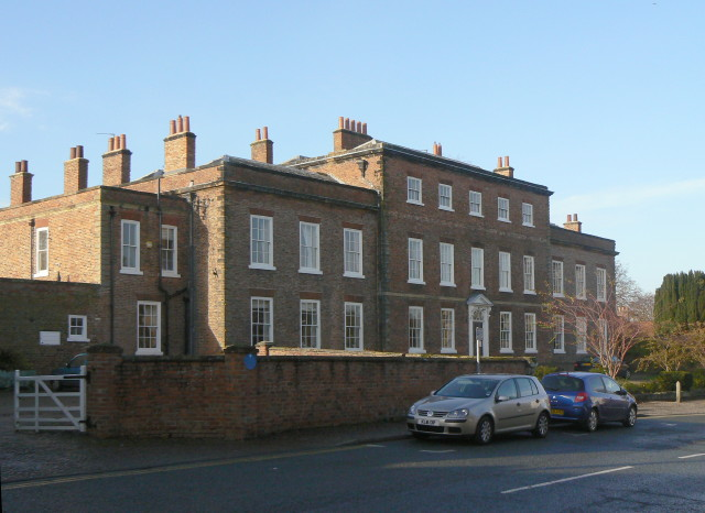 Thirsk Hall Dating from 1723, it was extended by the well-known York architect John Carr in 1774.